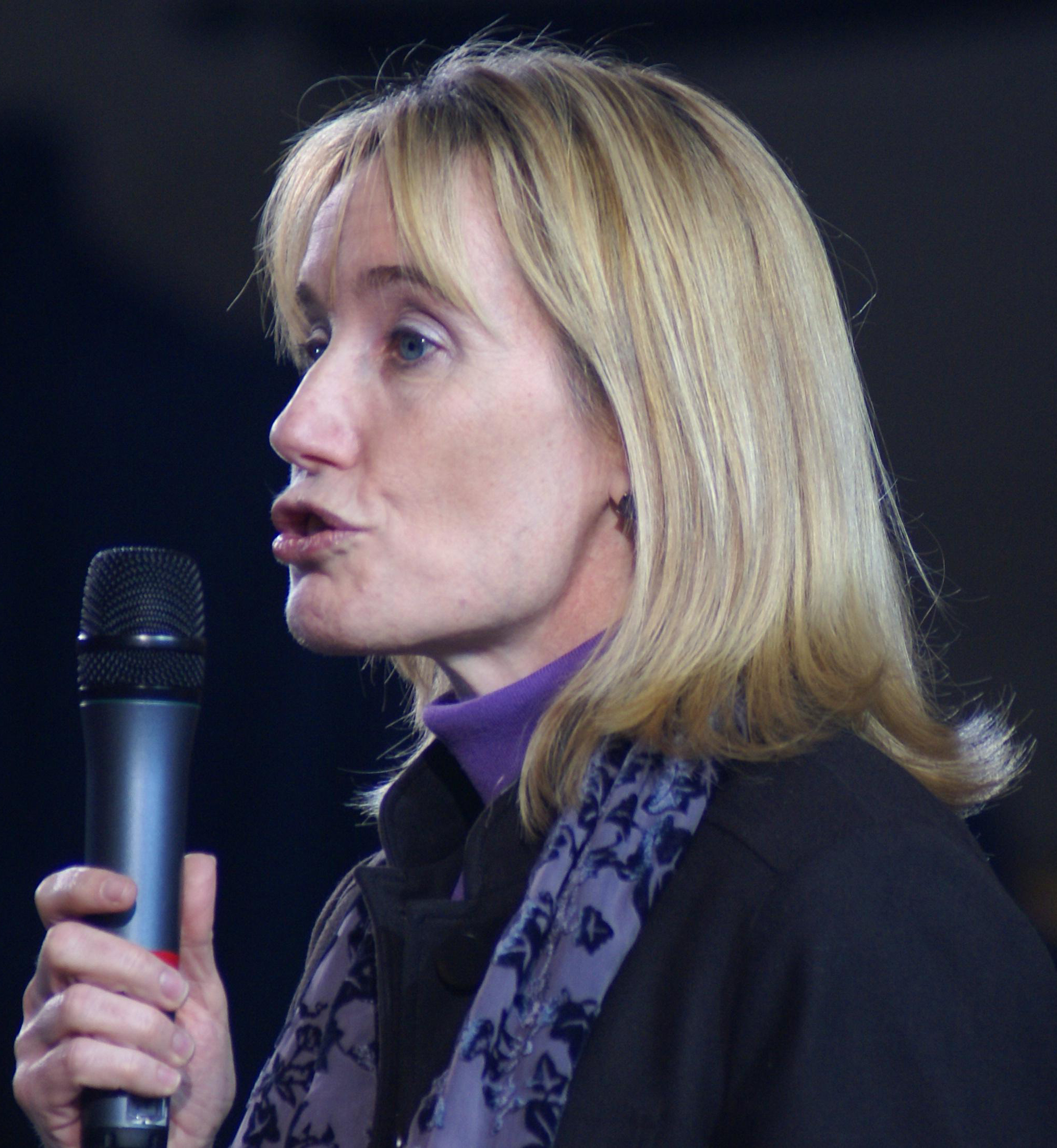 New Hampshire State Senator Margaret Wood Hassan in 2007